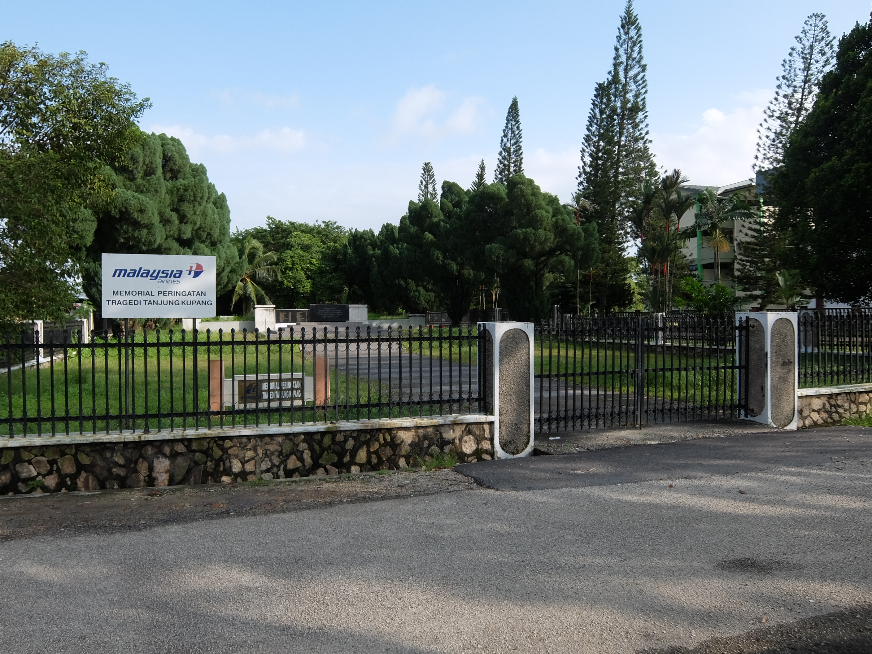 Tanjung Kupang Memorial Park, Kebun Teh, Johor Bahru, Johor, Malaysia